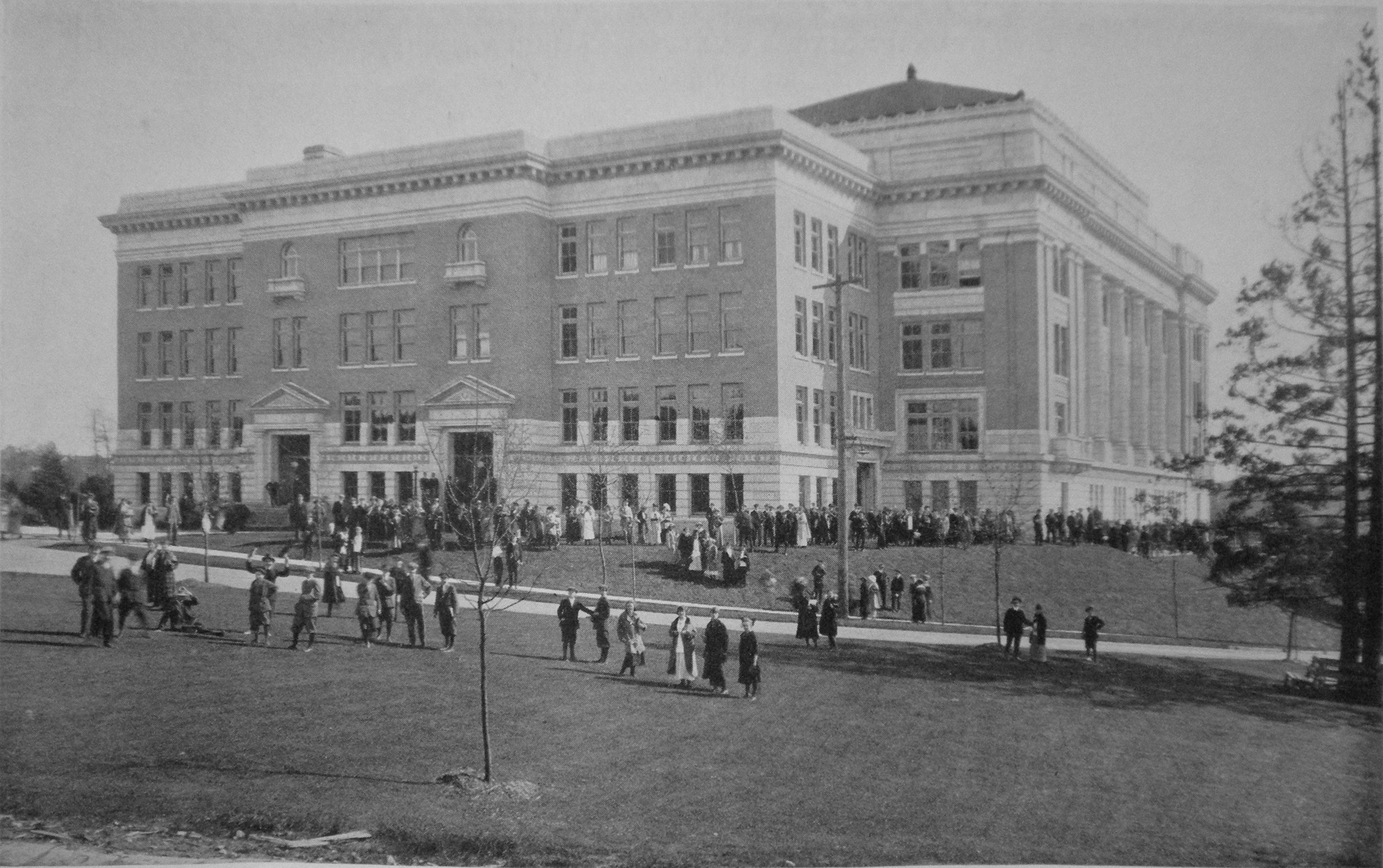 Franklin High School, Seattle, Washington, c. 1915.